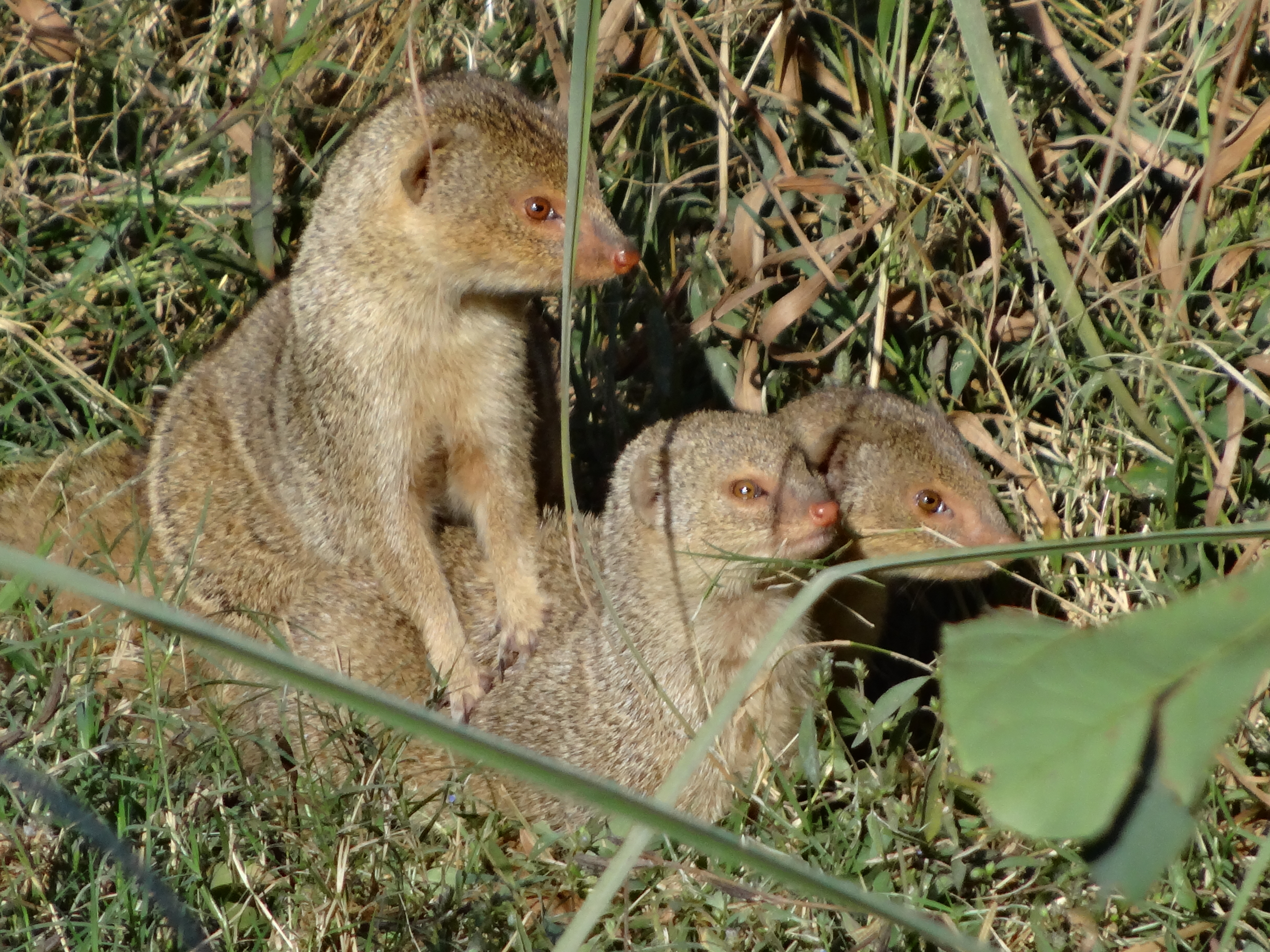 These inquisitive Indian grey mongoose pups were shot close to tiger confinement at Lucknow Zoological Park.